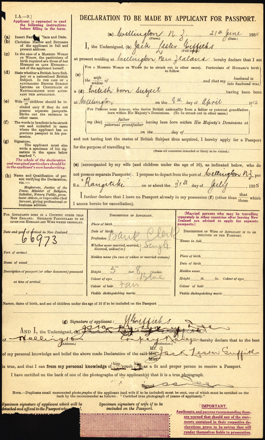 Archives New Zealand Reference: ACGO 8333 IA1 1350 / 15/11/59182